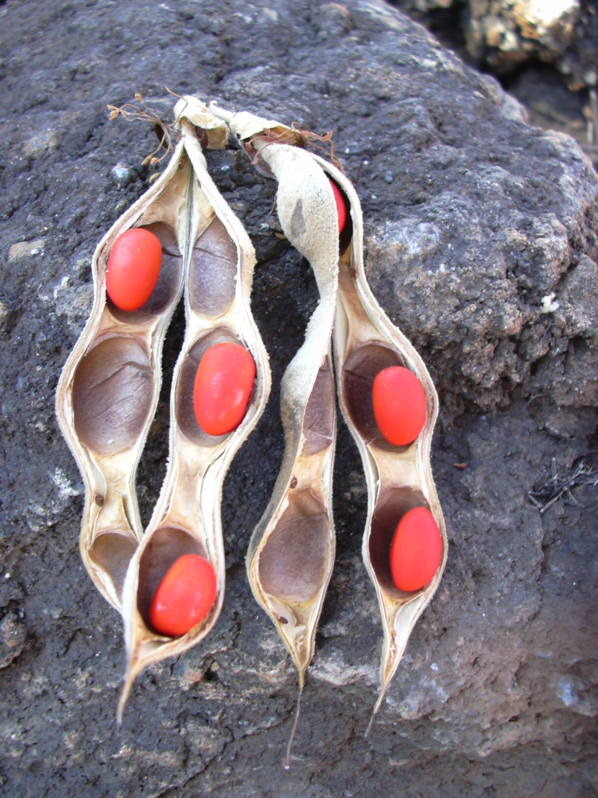 Erythrina sandwicensis (seeds). Location: Maui, Puu o Kali